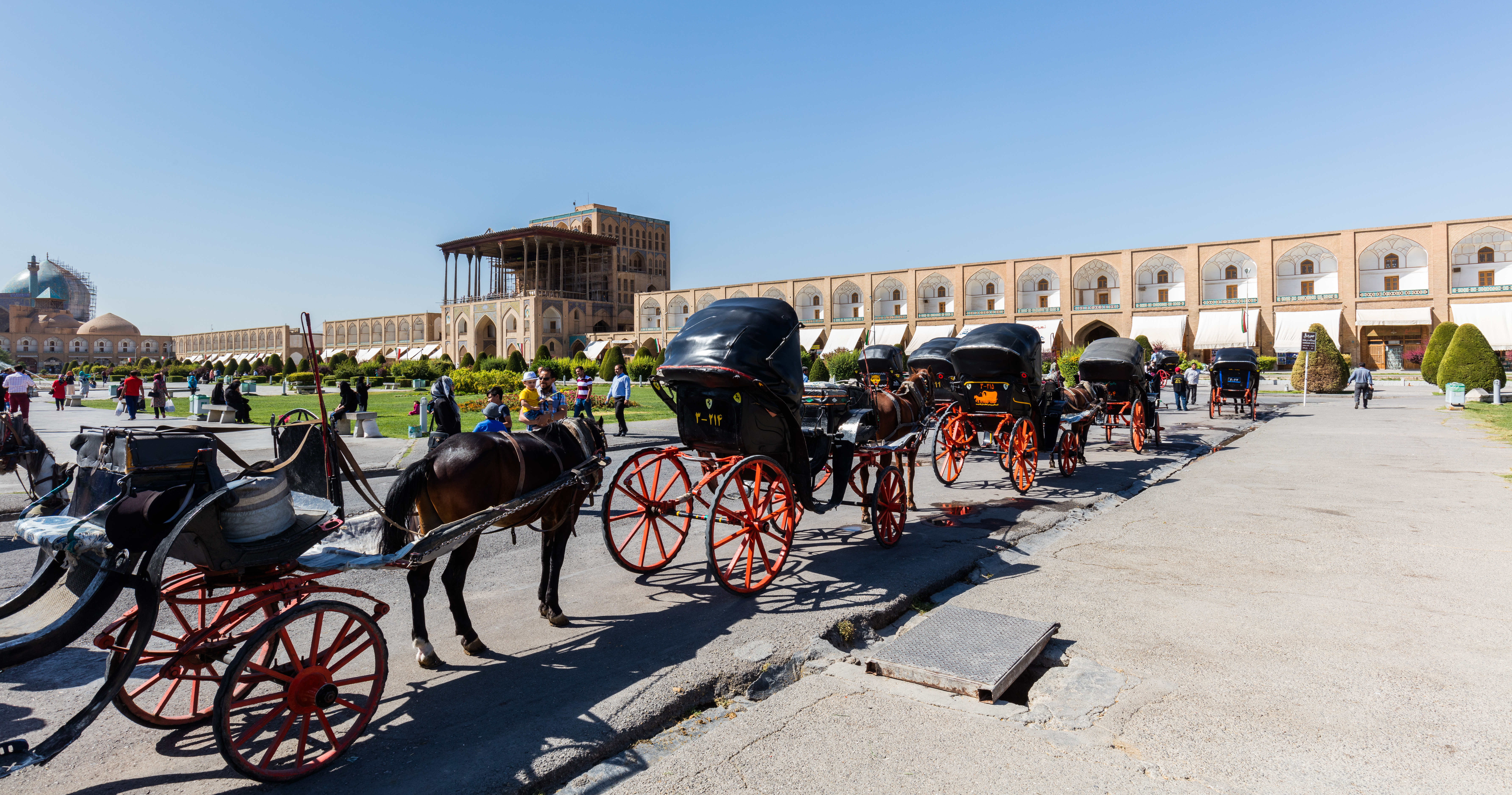 Aali Qapu Palace, Isfahan, Iran